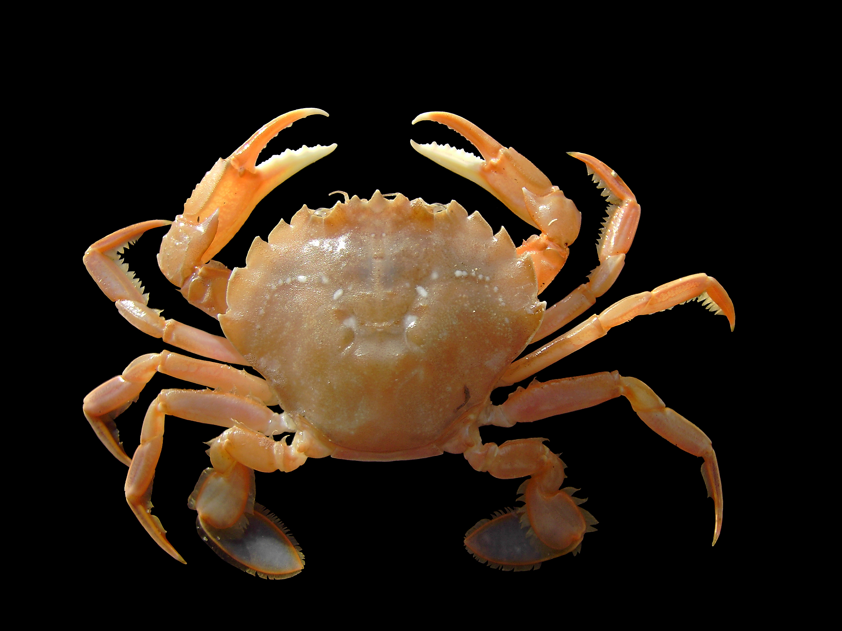 Flying crab taken on board of RV Belgica at Westdiep on the Belgian Continental Shelf.Carapace width: 39 mm.